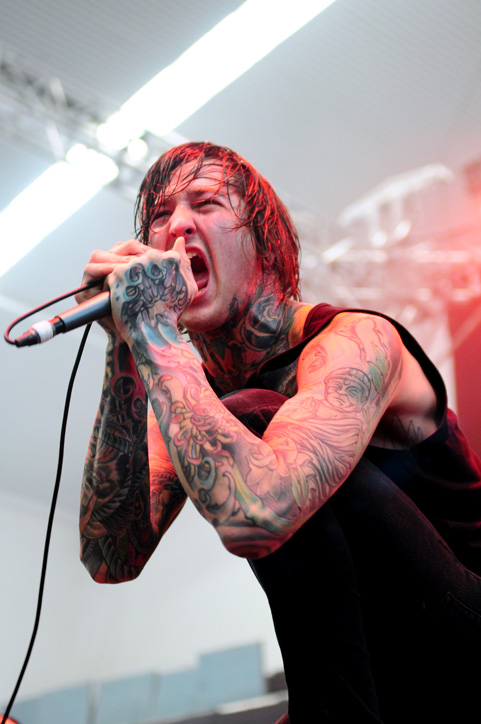 No Sleep Til Festival 2010